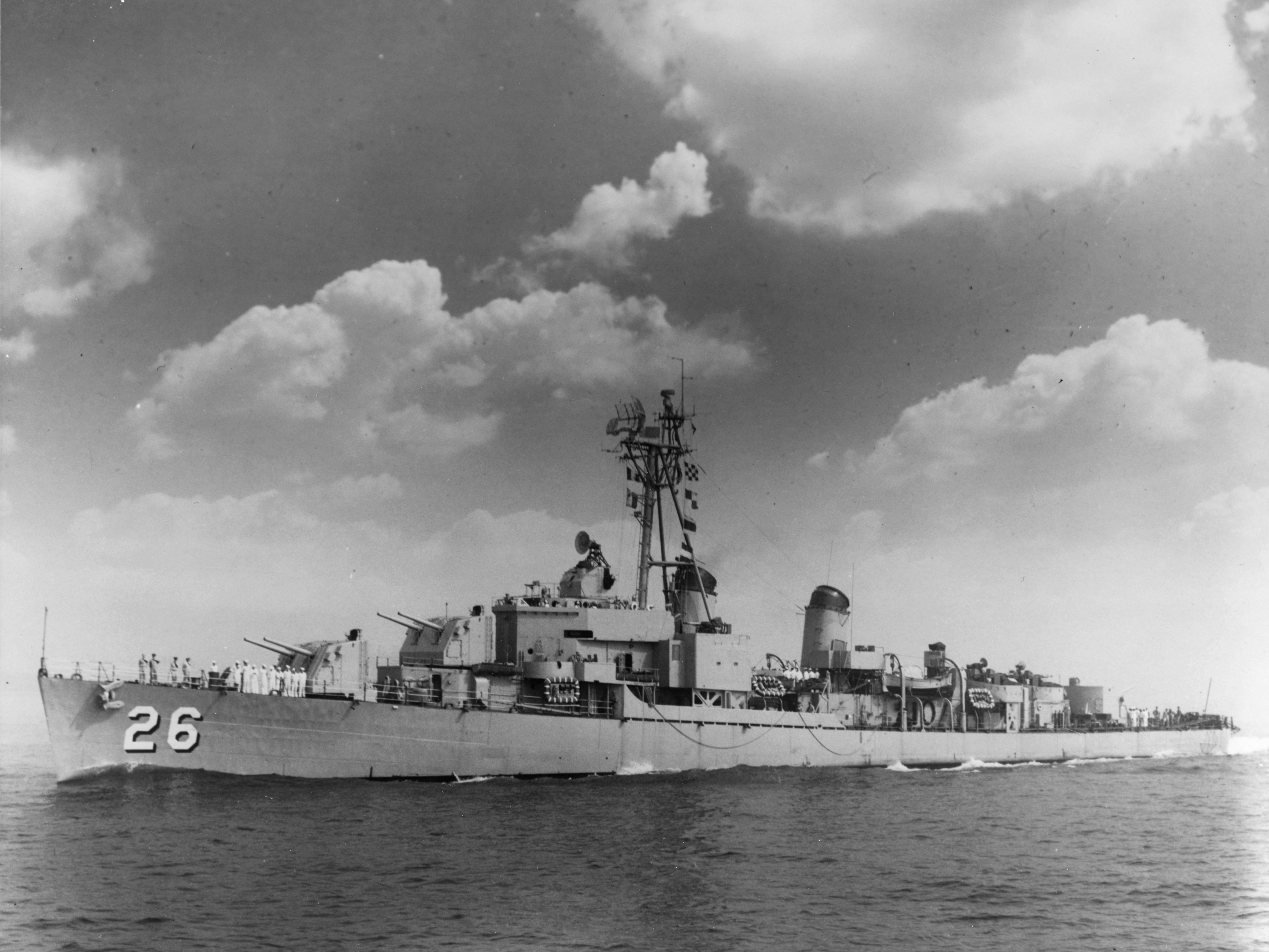 The U.S. Navy destroyer minelayer USS Harry F. Bauer (DM-26) underway during the 1950s, after being refitted with a tripod foremast. Laid down and launched as DD-738, this ship was redesignated DM-26 prior to completion.